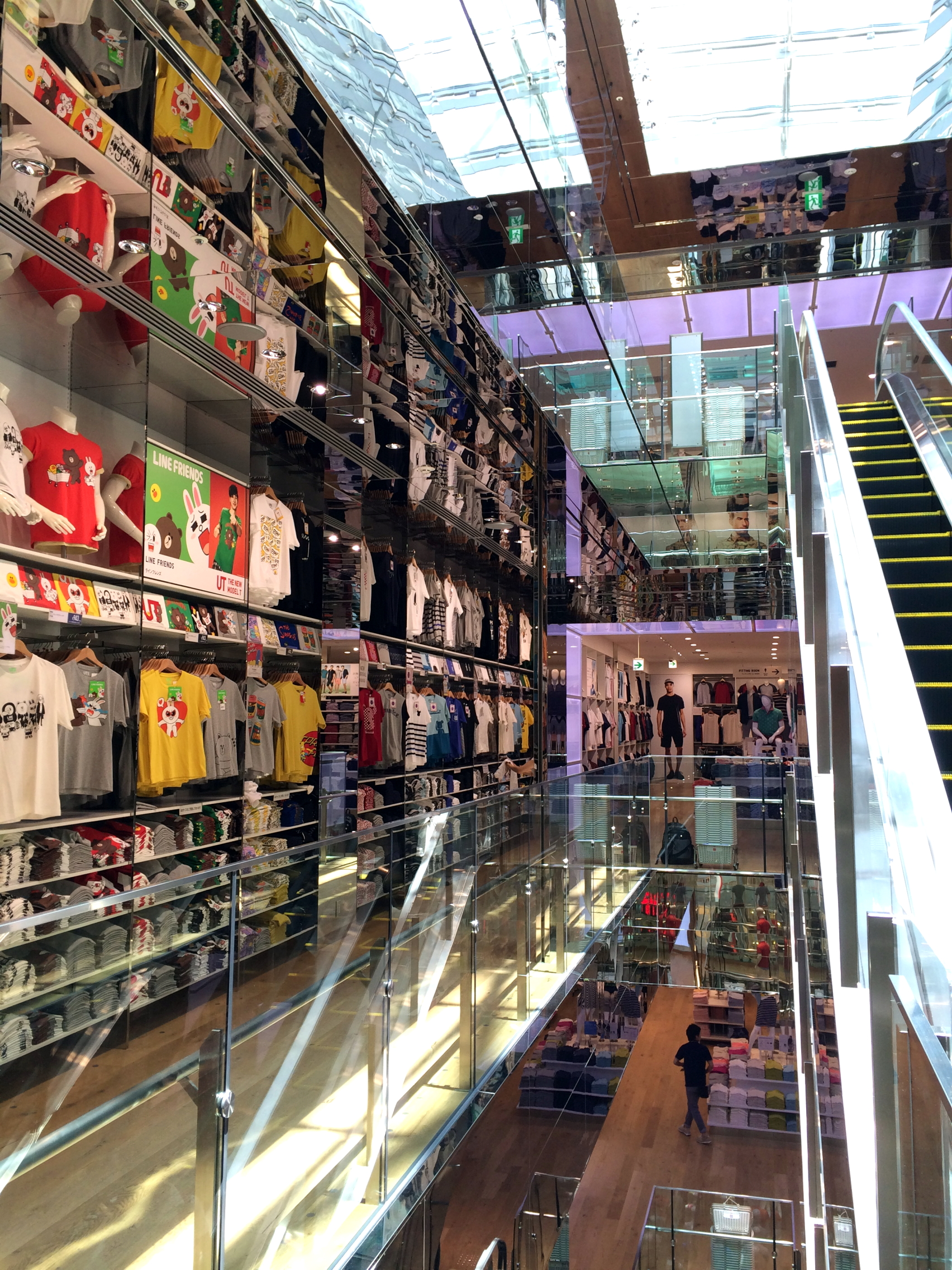 Uniqlo Shinsaibashisuji Flag ship store Interior view